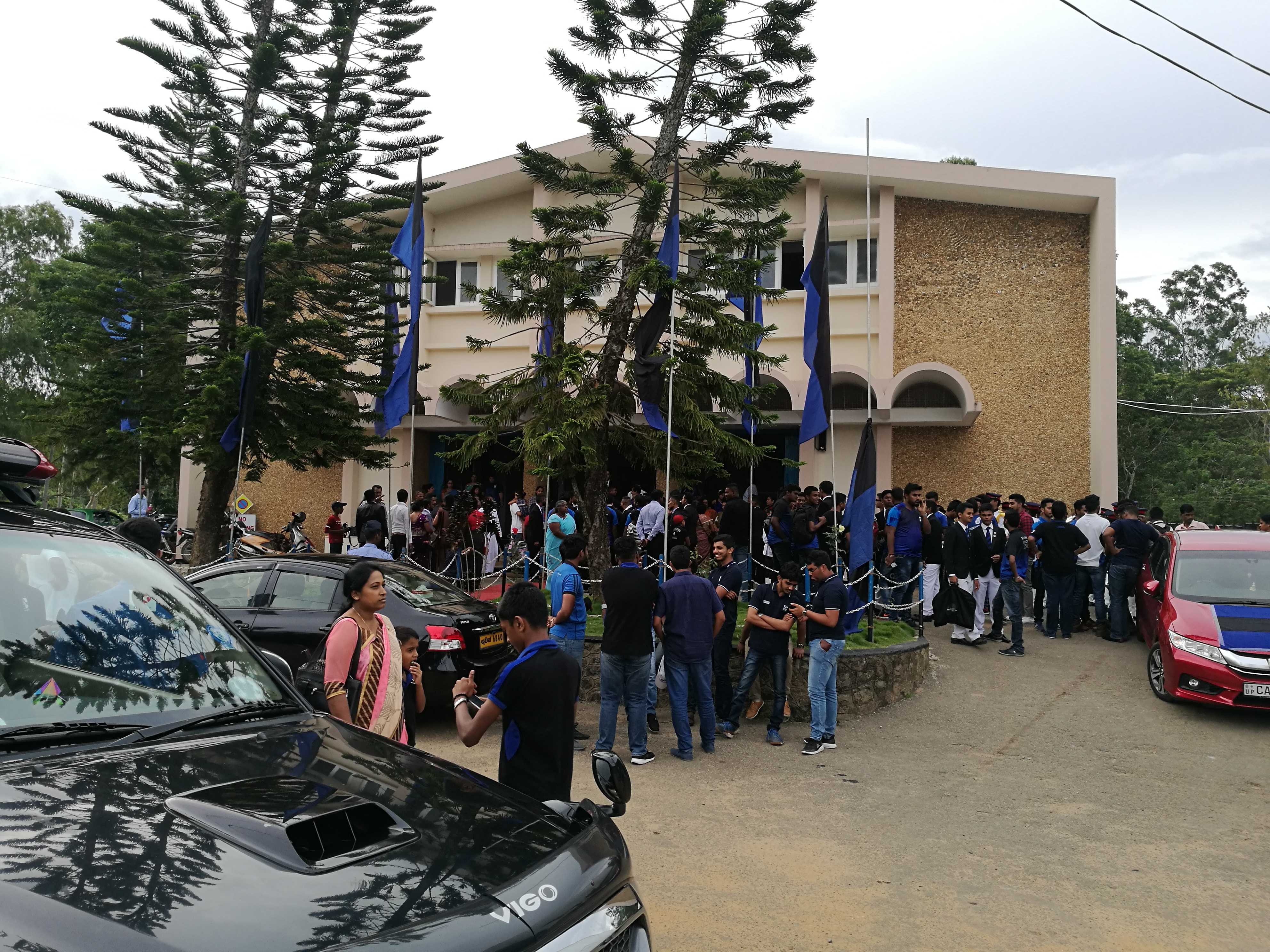 College Main Hall